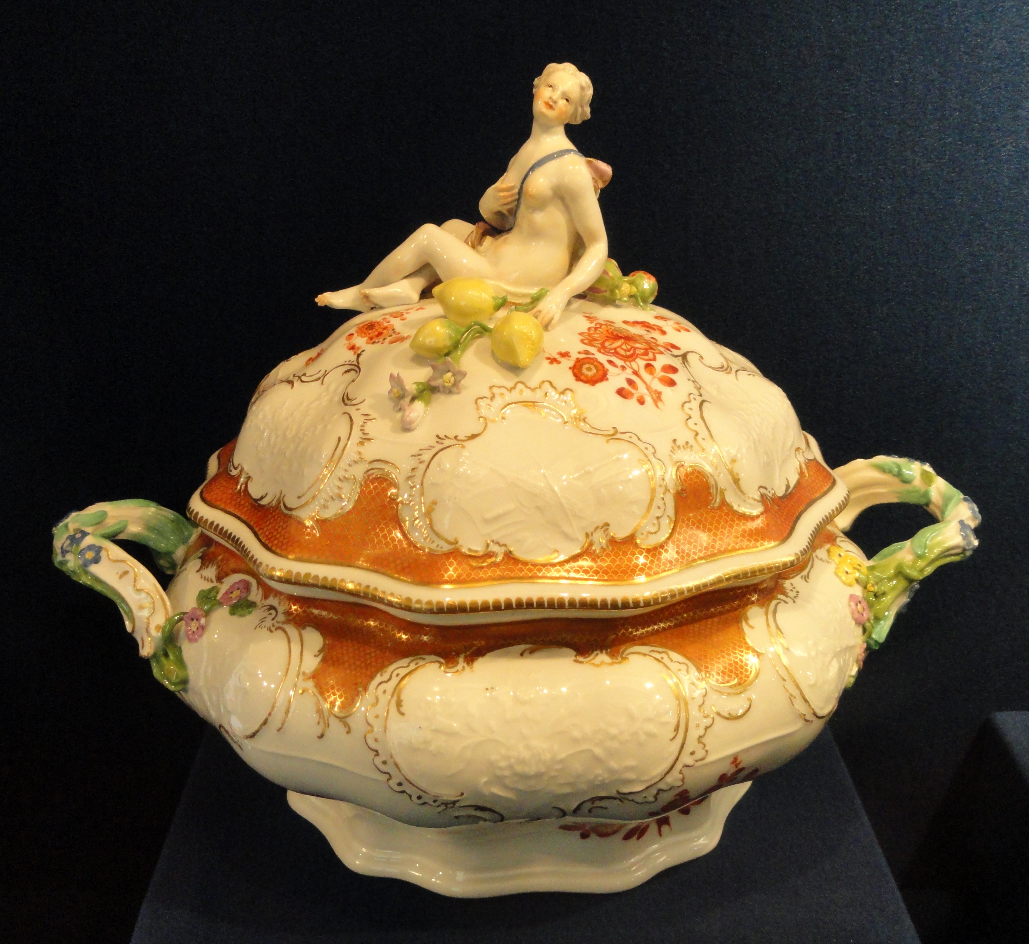 Exhibit in the Gardiner Museum, Toronto, Ontario, Canada. This artwork is in the public domain because the artist died more than 70 years ago.